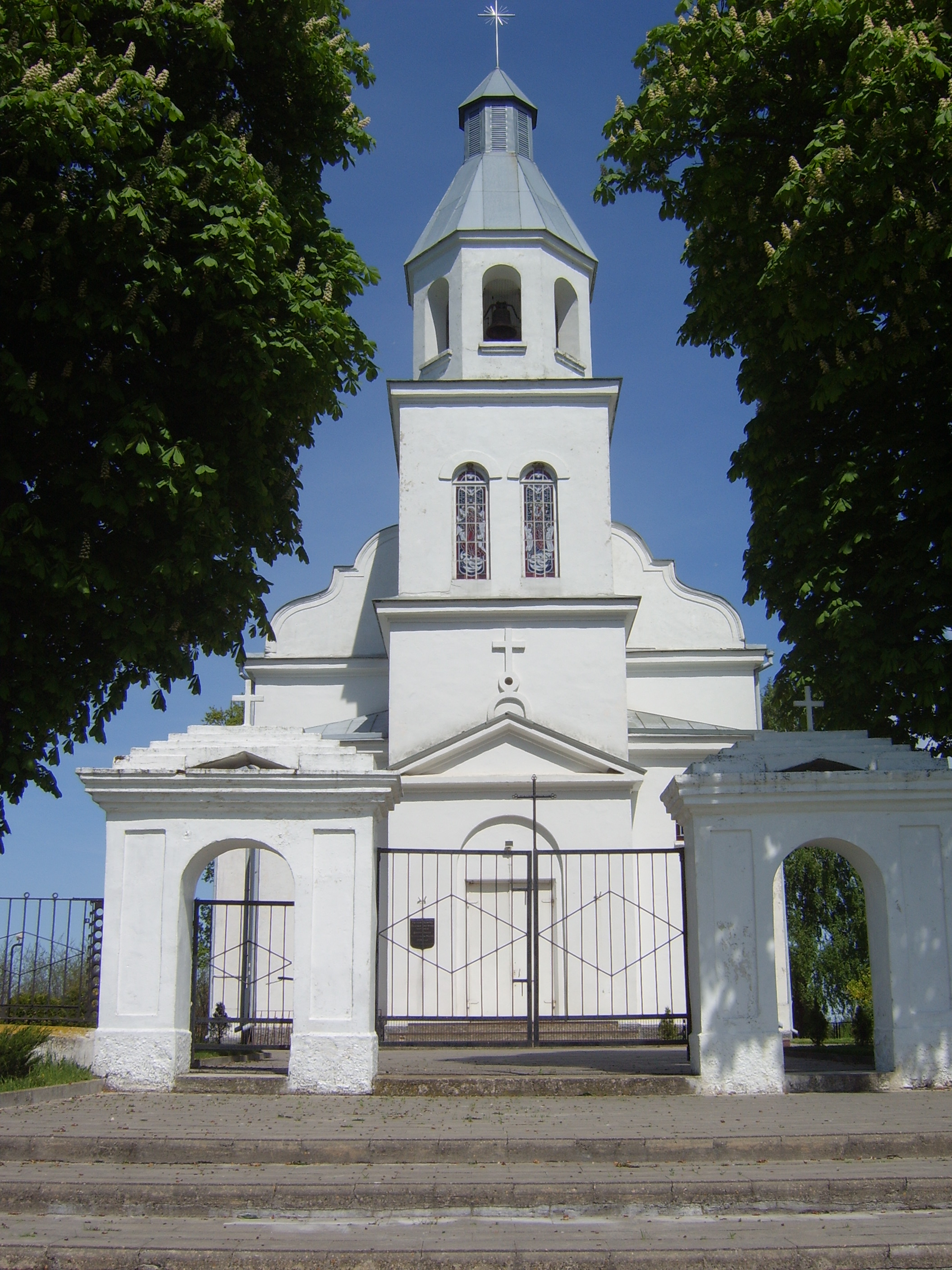 Darava. Catholic church of the Assumption of the Blessed Virgin Mary, 1926-1938.